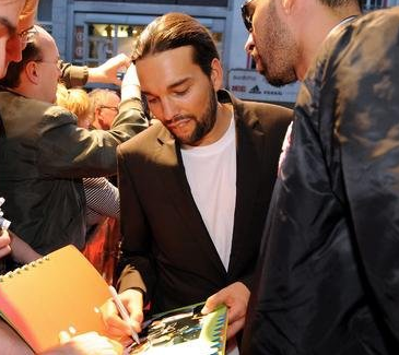 Timo Joh Mayer at a premiere